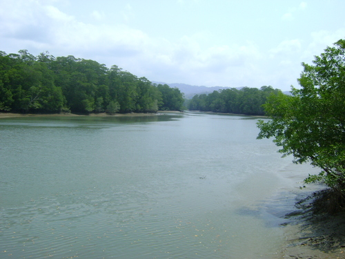 Chucunaque River in the Province of Darien, Panama